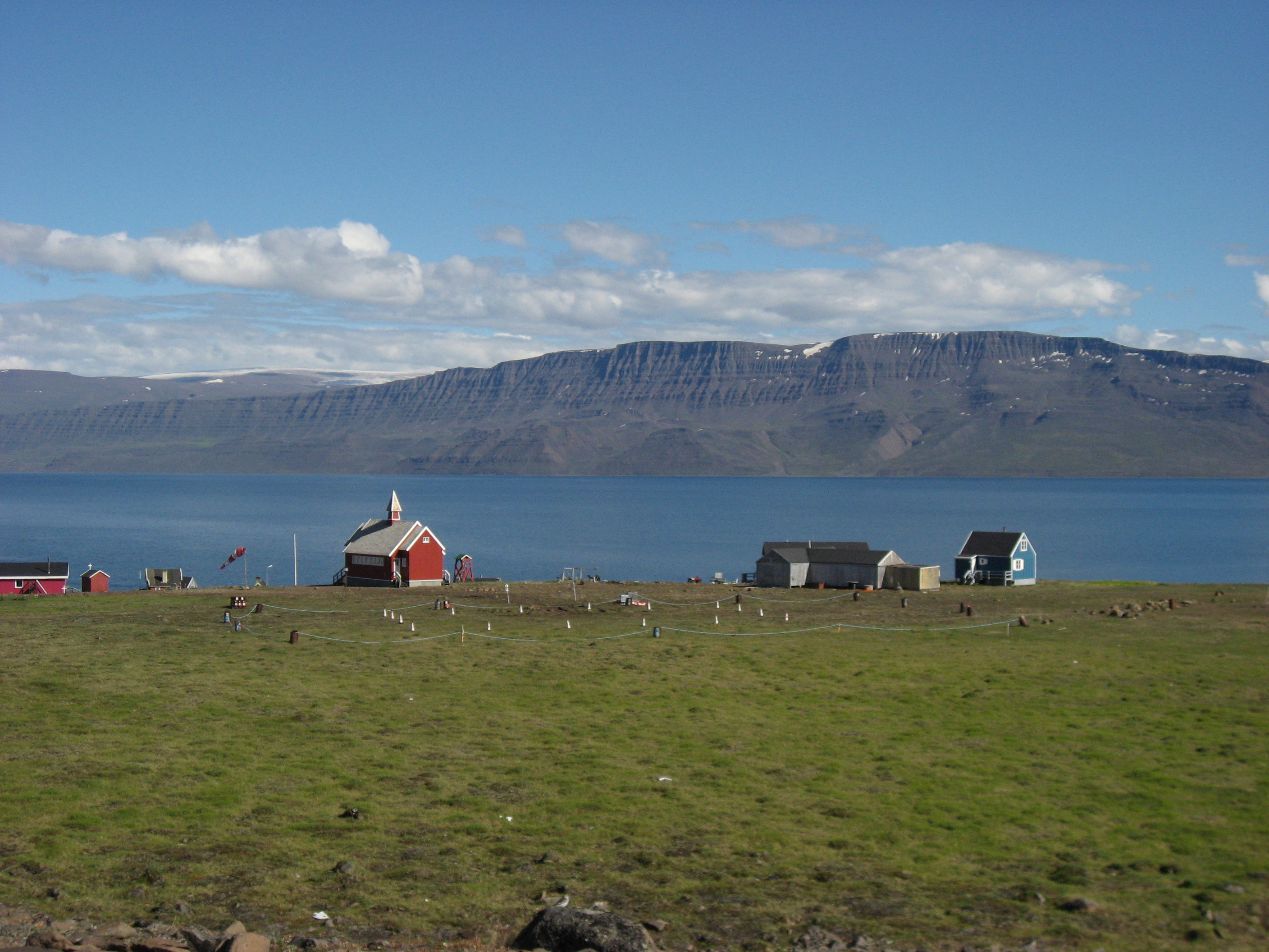 Upernavik Kujalleq Heliport, Greenland. The curch is seen behind the heliport.